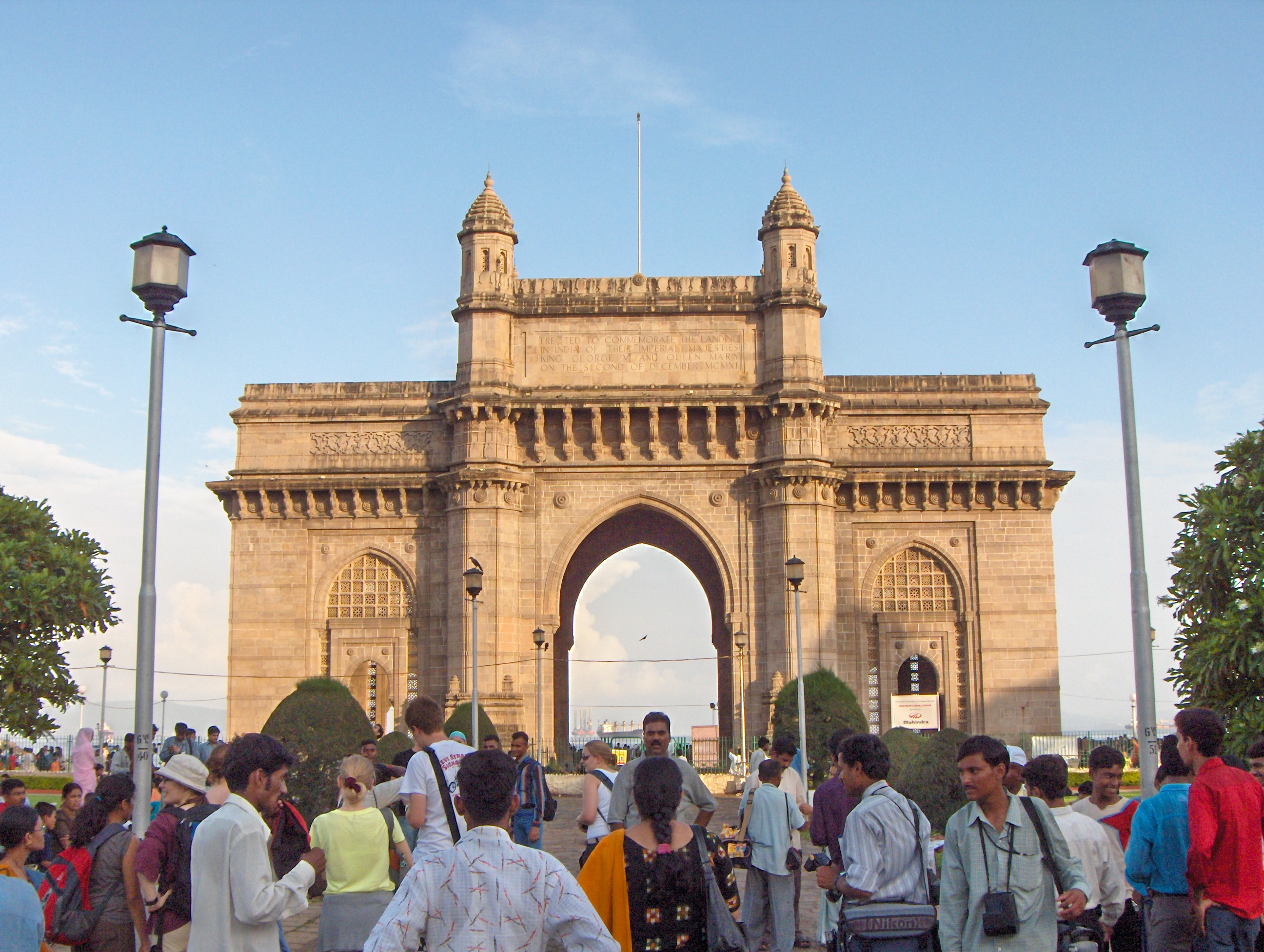 Gateway of India in Mumbai